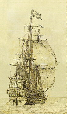 Resande Man: Swedish warship, 17th century